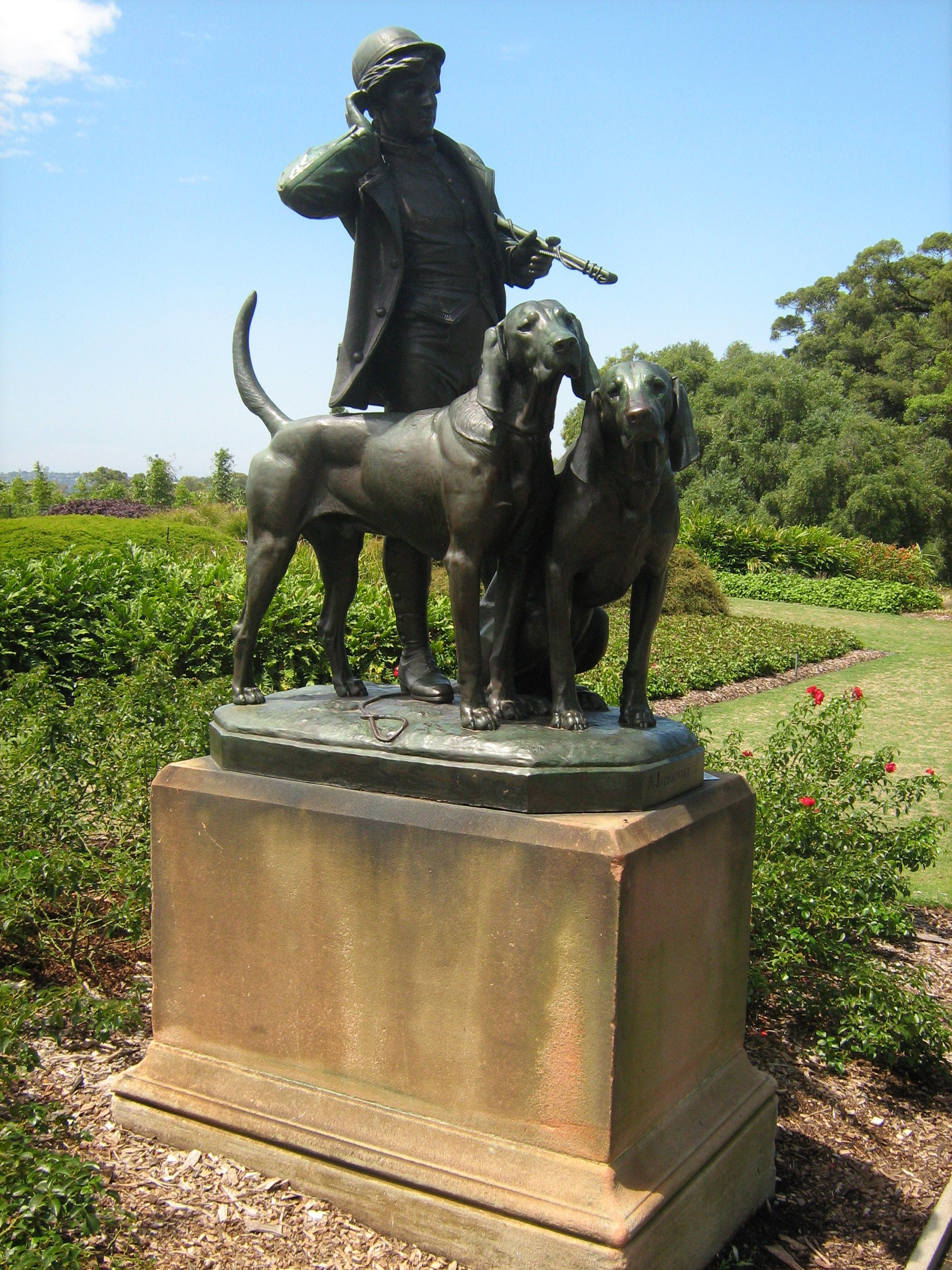 Huntsman and Dogs, Royal Botanic Gardens, Sydney